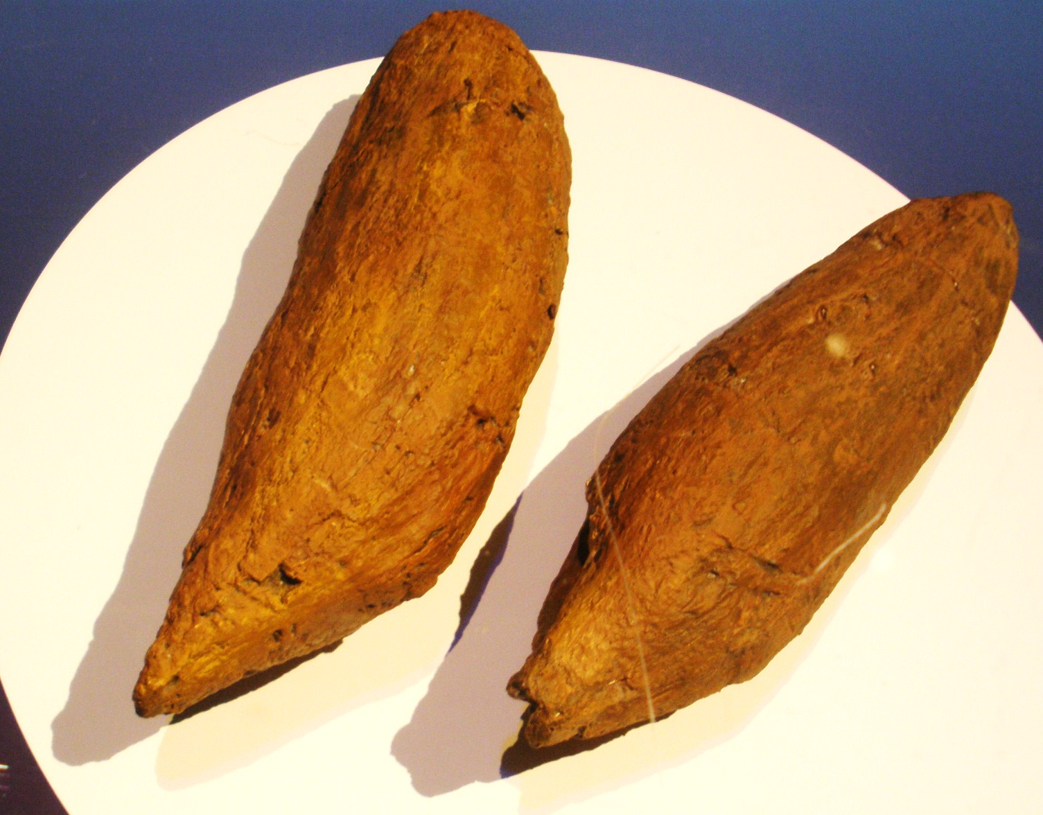 Fossil of Livyatan, an extinct whale- Took the photo at Naturalis museum, Leiden